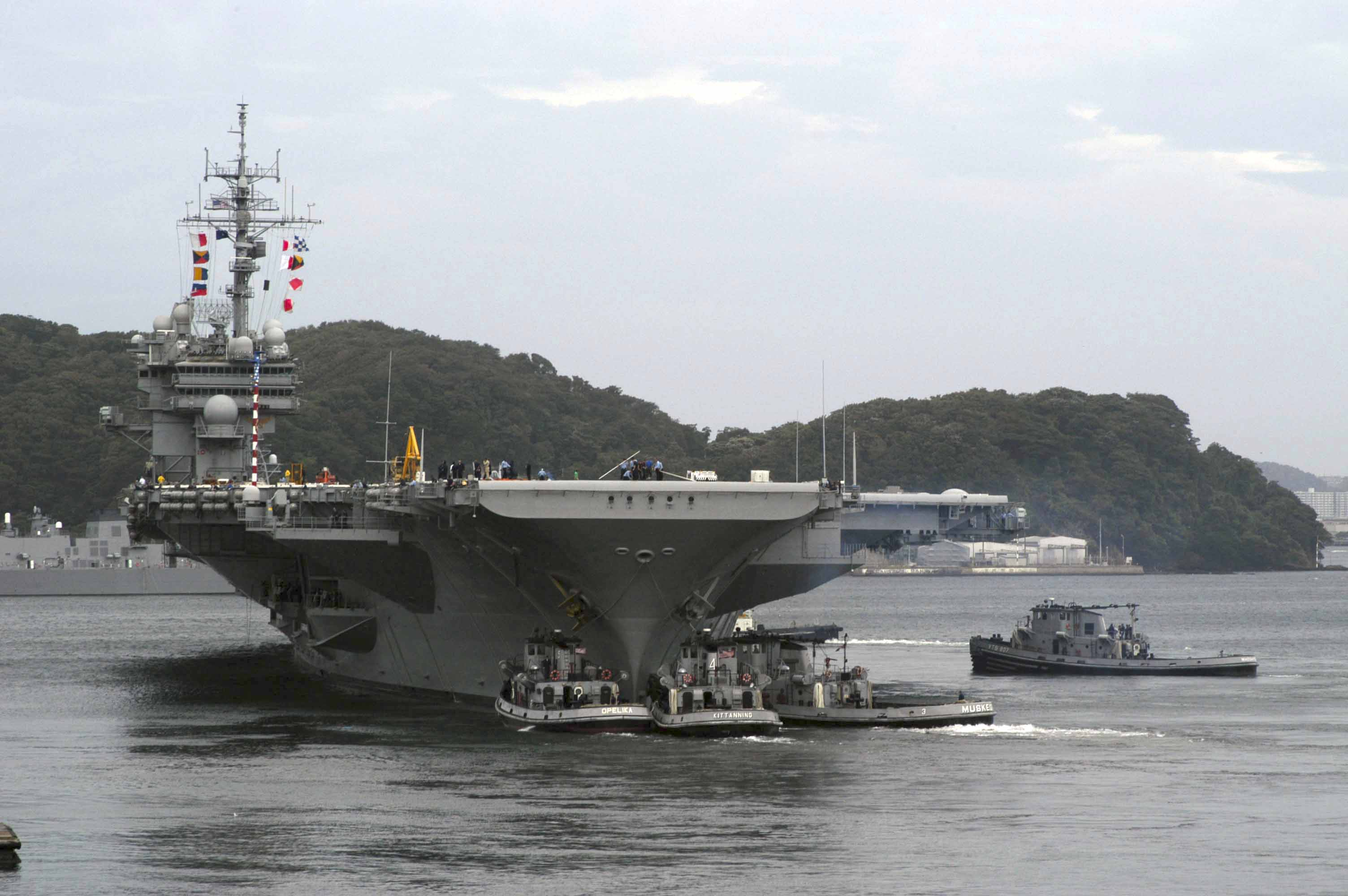 Yokosuka, Japan (Oct. 13, 2003) -- The aircraft carrier USS Kitty Hawk (CV 63) gets underway after completing a successful five-month overhaul by Ship's Repair Force, Yokosuka, Japan. Kitty Hawk will now undergo sea-trials. U.S. Navy photo by Photographer’s Mate 1st Class Warner. (RELEASED)